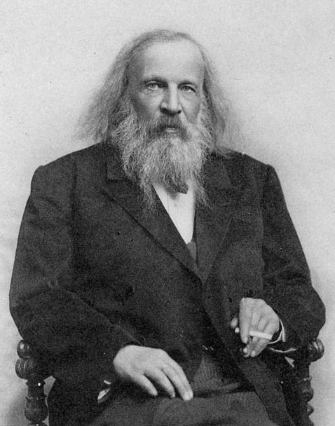 Dmitri Mendeleev, Frontispiece from "Fundamentals of Chemistry" (1897)